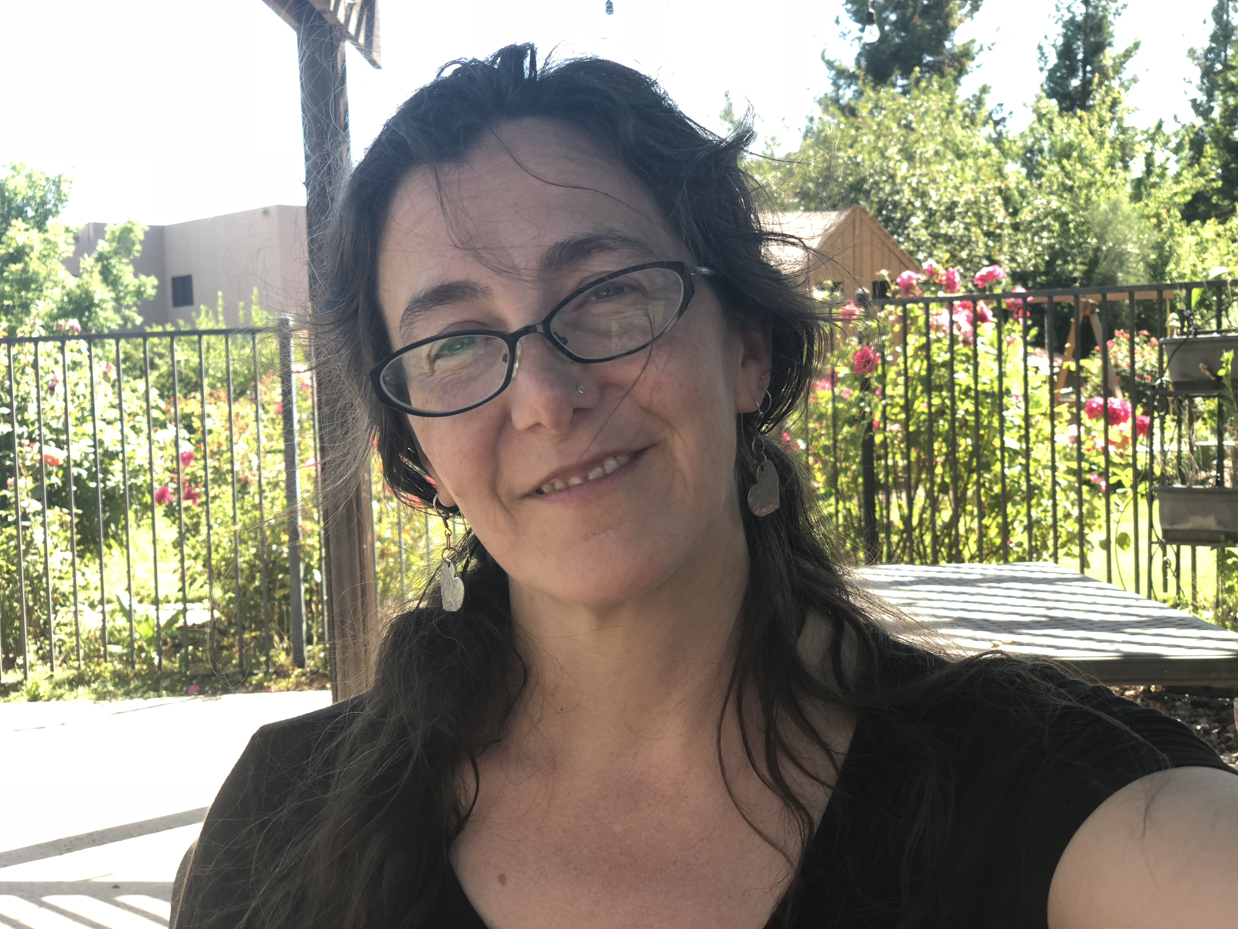 Kate at a coffee shop, her natural habitat.